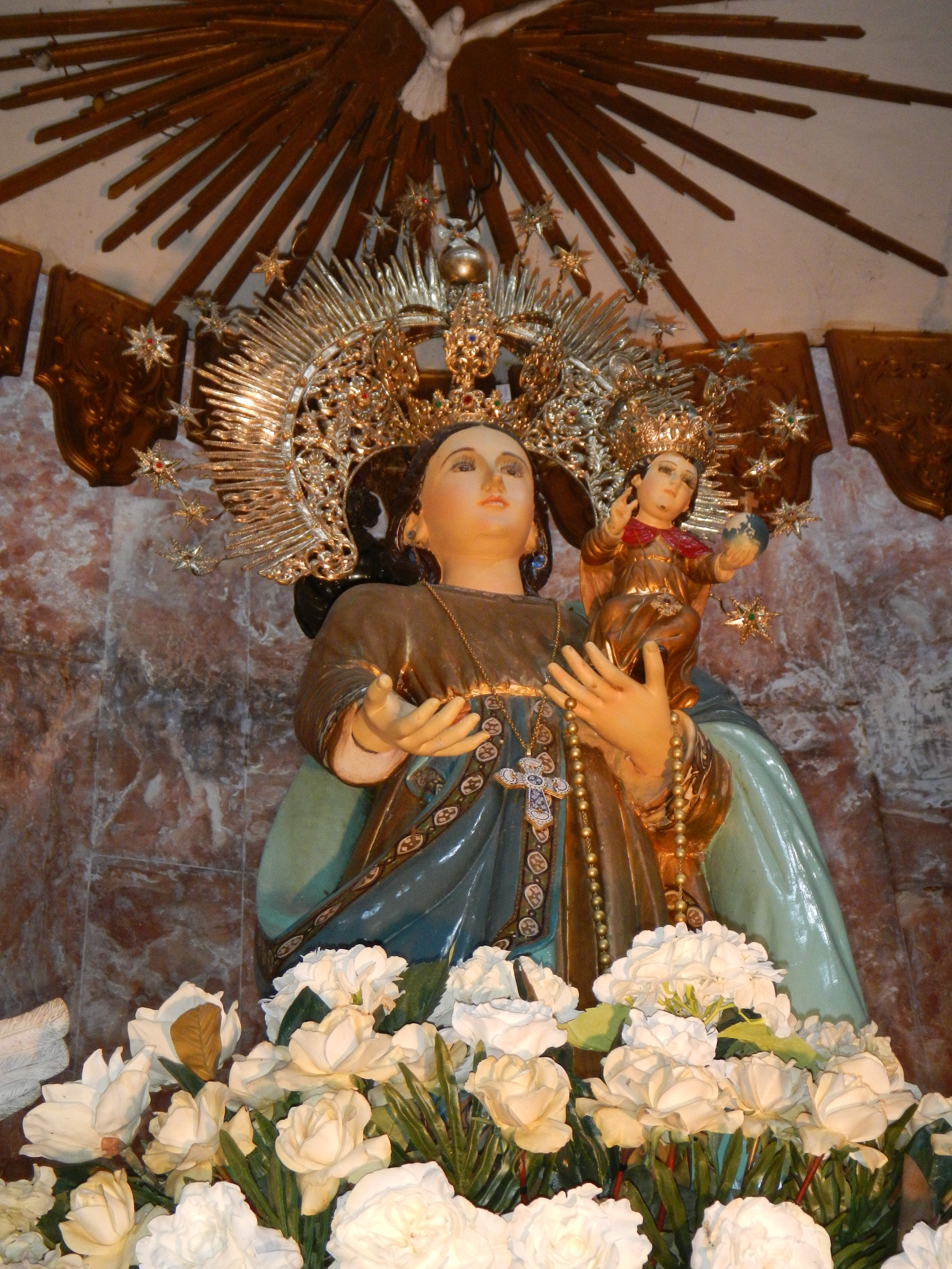 Photos of the majestic, magnificent interior of the Agoo Basilica along Pan-Philippine Highway Highway (AH26 AH26) in Agoo, La Union Town Proper.